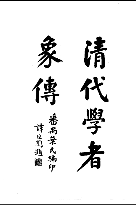 Qingdai Xuezhe Xiangzhuan